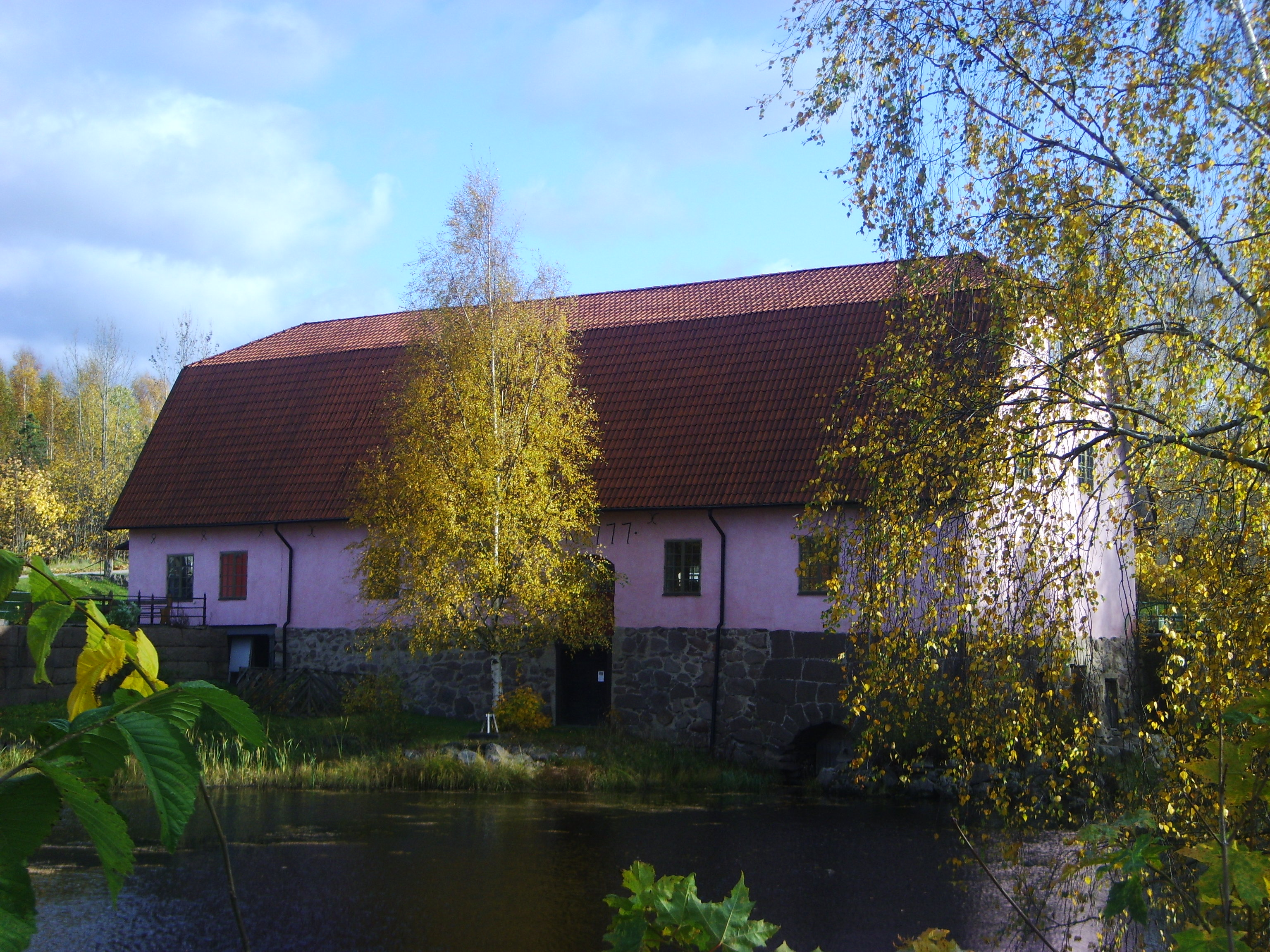 A picture from the Industrial Museum (a old watermill from the year 1777) in Boxholm, Östergötland, Sweden.